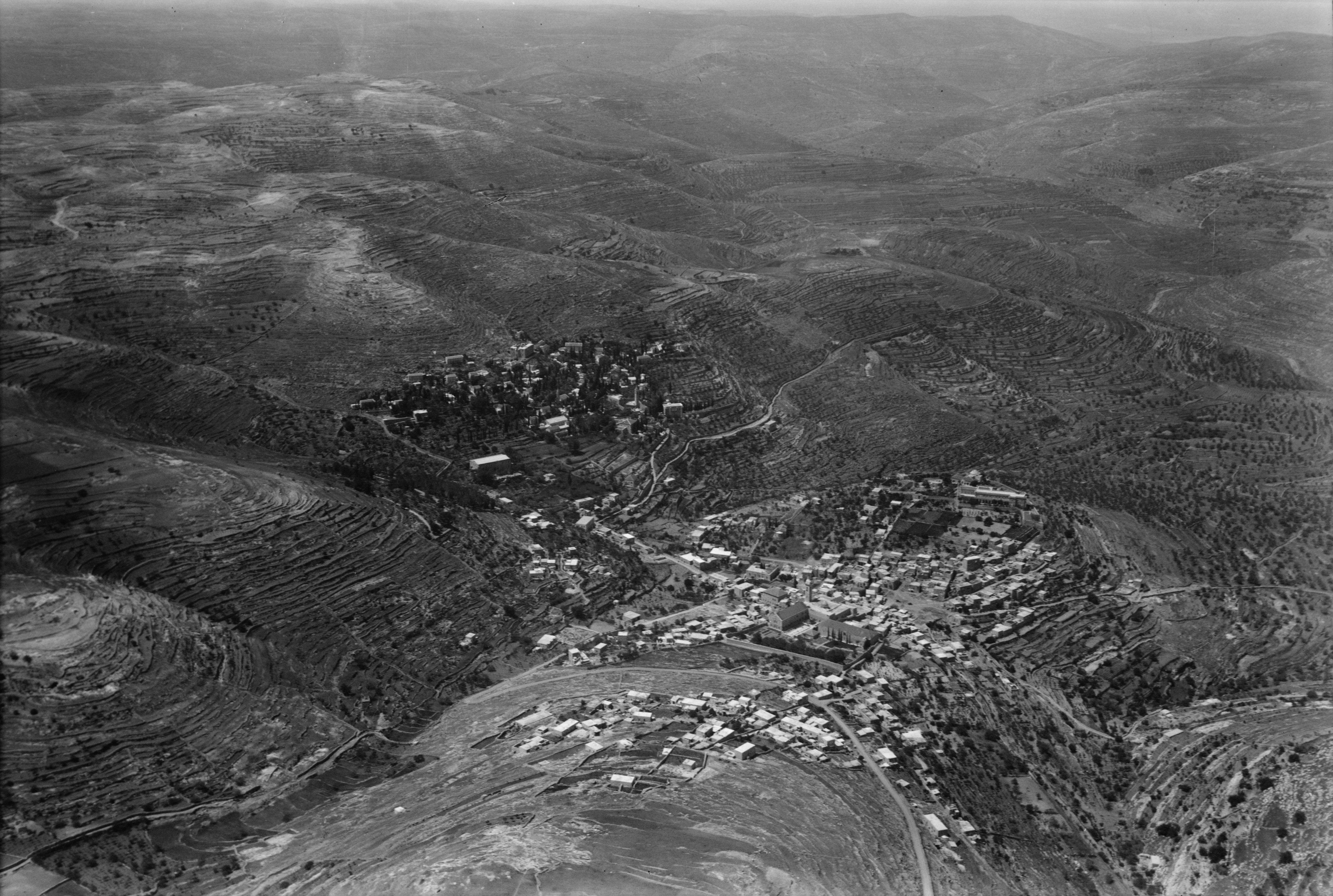 Title: Air views of Palestine. Various points of interest around Jerusalem. Ain Karem, "In the hill country of Judea." Traditional birthplace of John the Baptist Abstract/medium: G. Eric and Edith Matson Photograph Collection Physical description: 1 negative